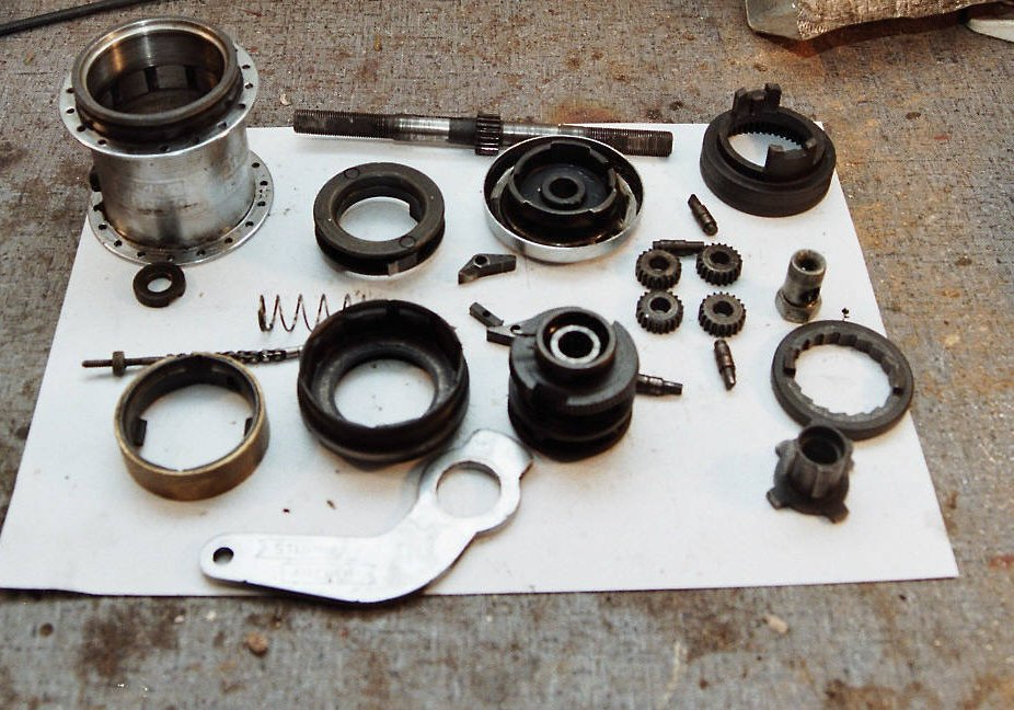 Internal parts of a bicycle three gear hub with coaster brake